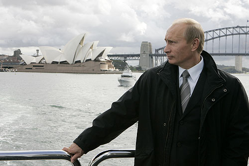 SYDNEY. Strolling along the Sydney harbour.